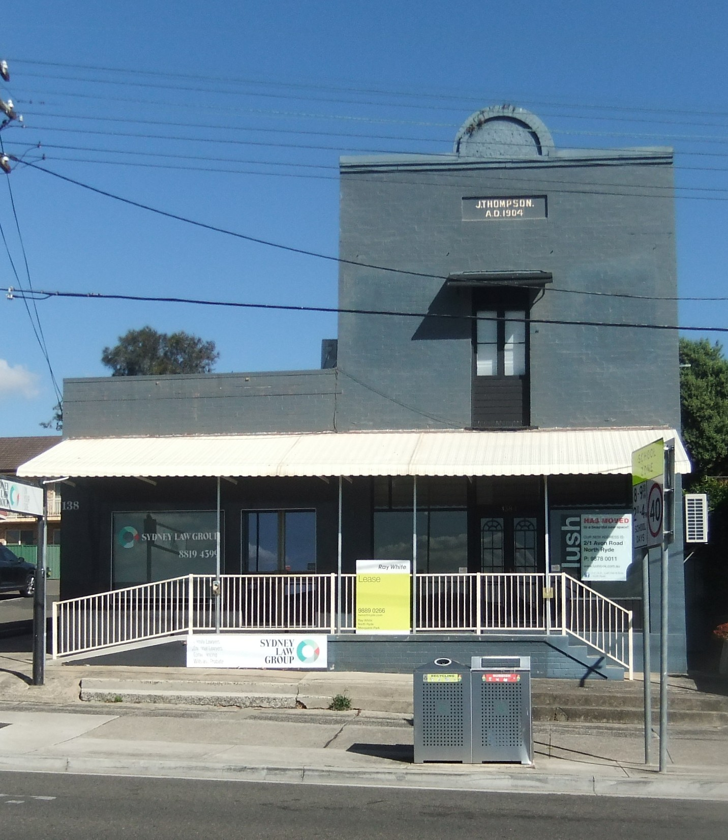 J. Thompson's shop was a general shop and milk bar for many years. Local children would gather on the steps. The upstairs verandah has been long removed.